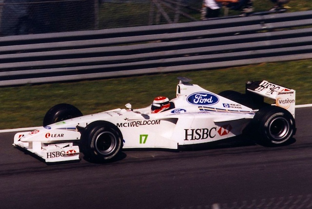 Johnny Herbert driving for Stewart Grand Prix at the 1999 Canadian Grand Prix.